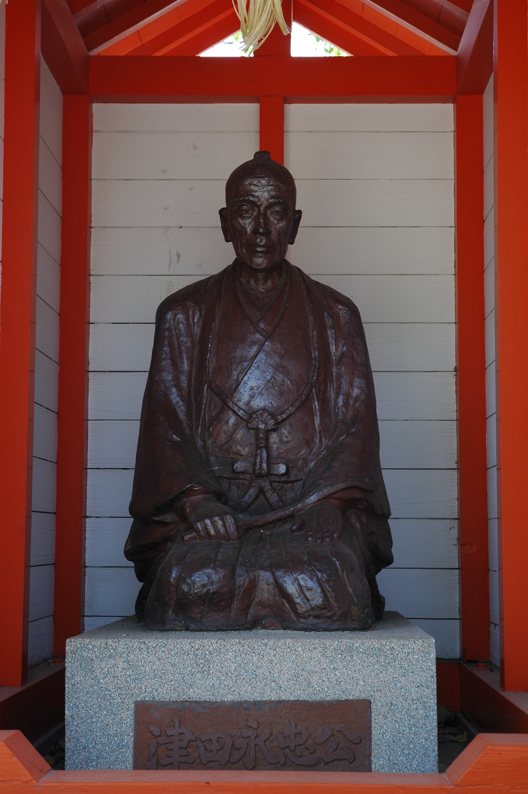 earthenware statue of Tsuda Nagatada in Okita shrine in Okayama city